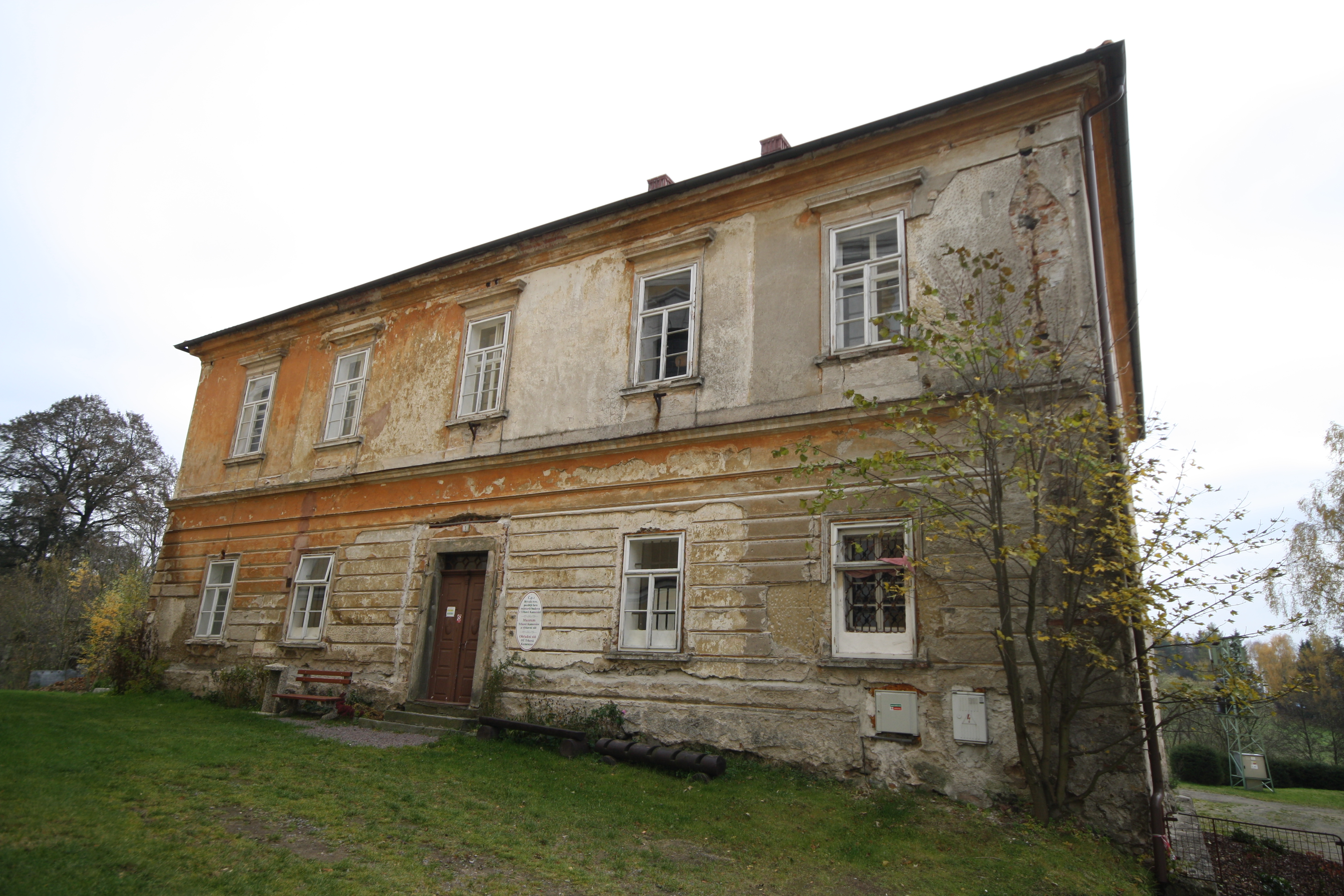 Rectory in Trhová Kamenice, Chrudim District.